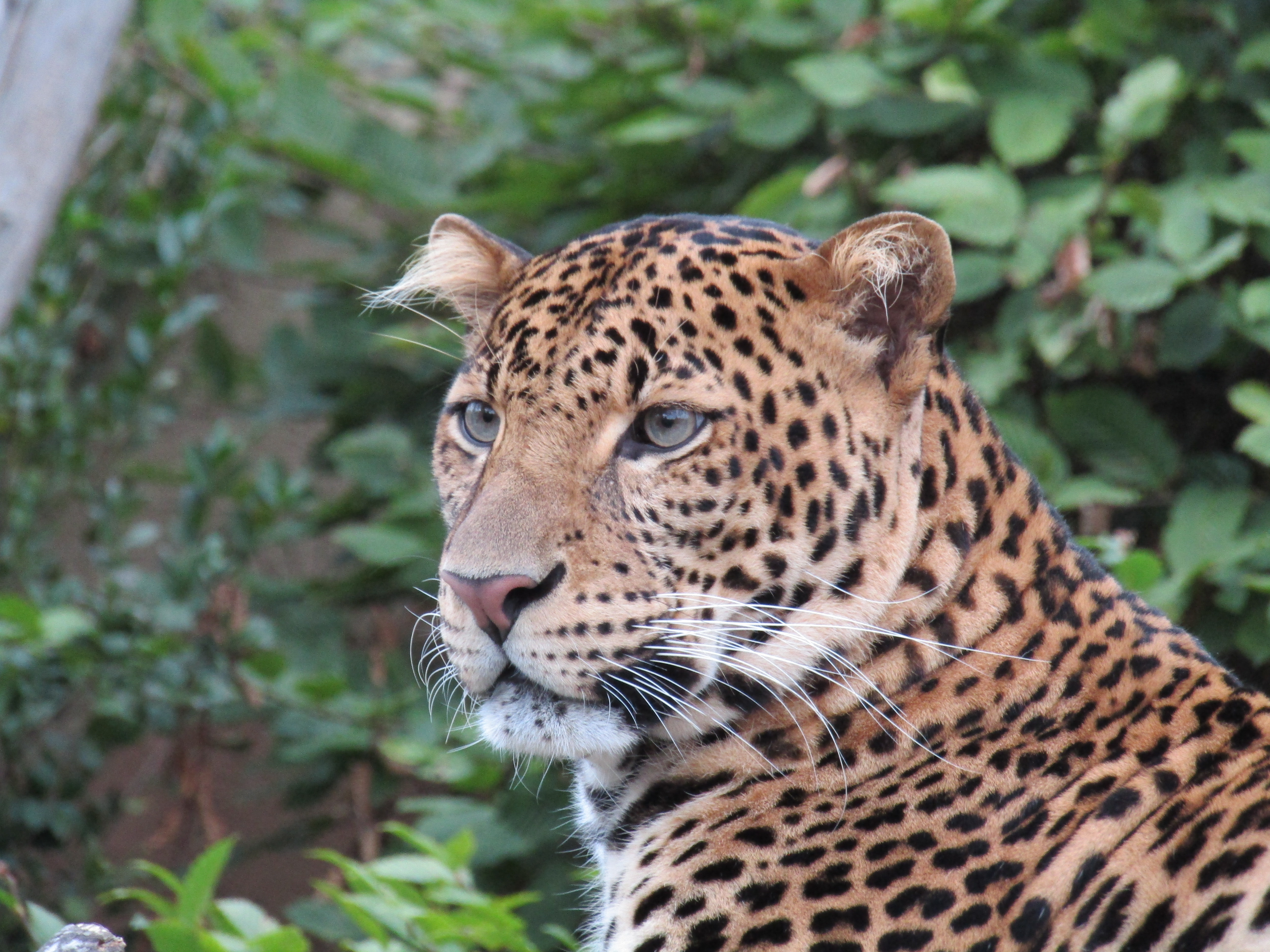 Panthera pardus melas in Prague Zoo (head)